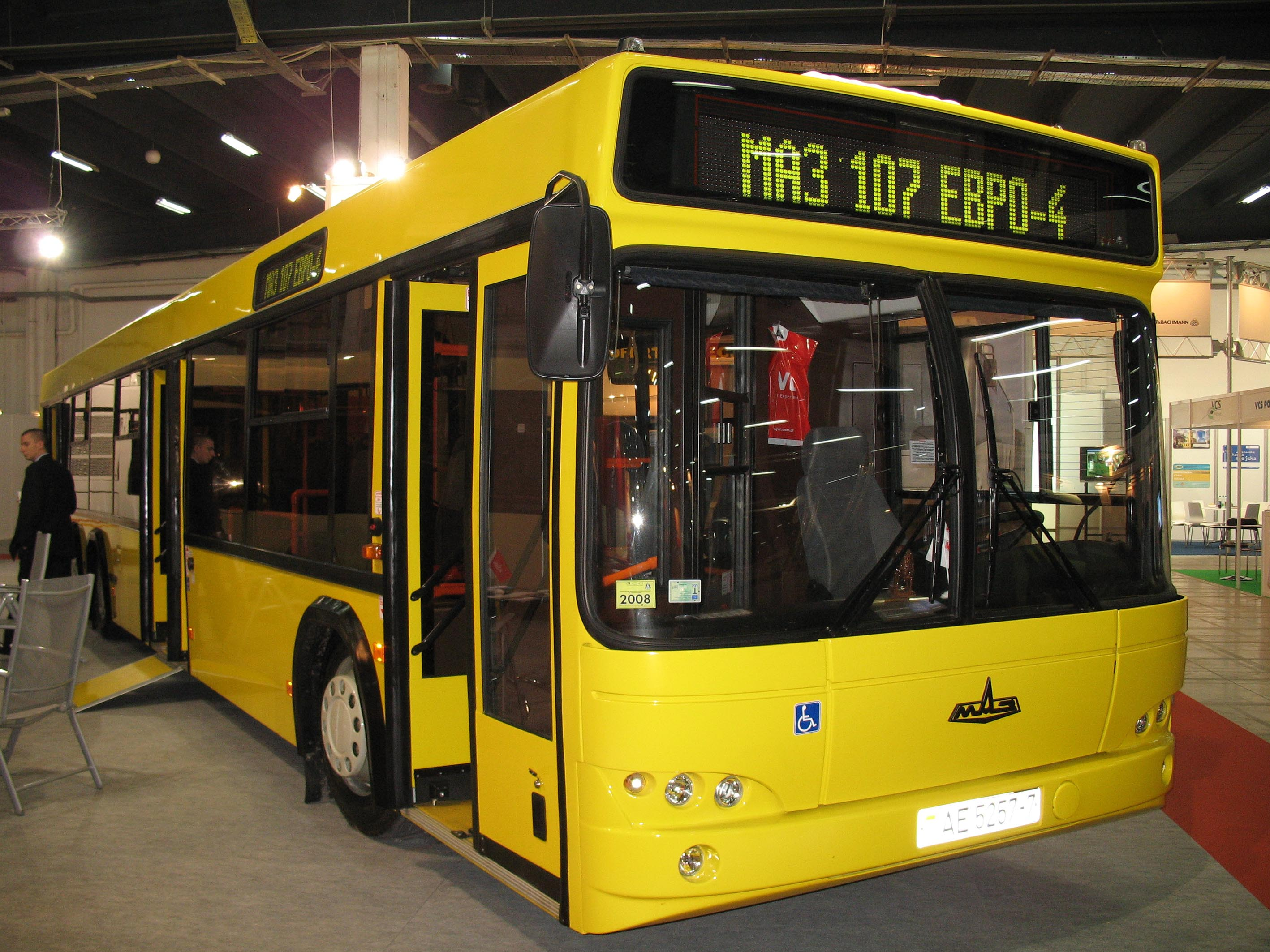 MAZ 107 bus (reg. AE 5257-7) in Kielce, Poland. Built 2008. Transexpo 2008.